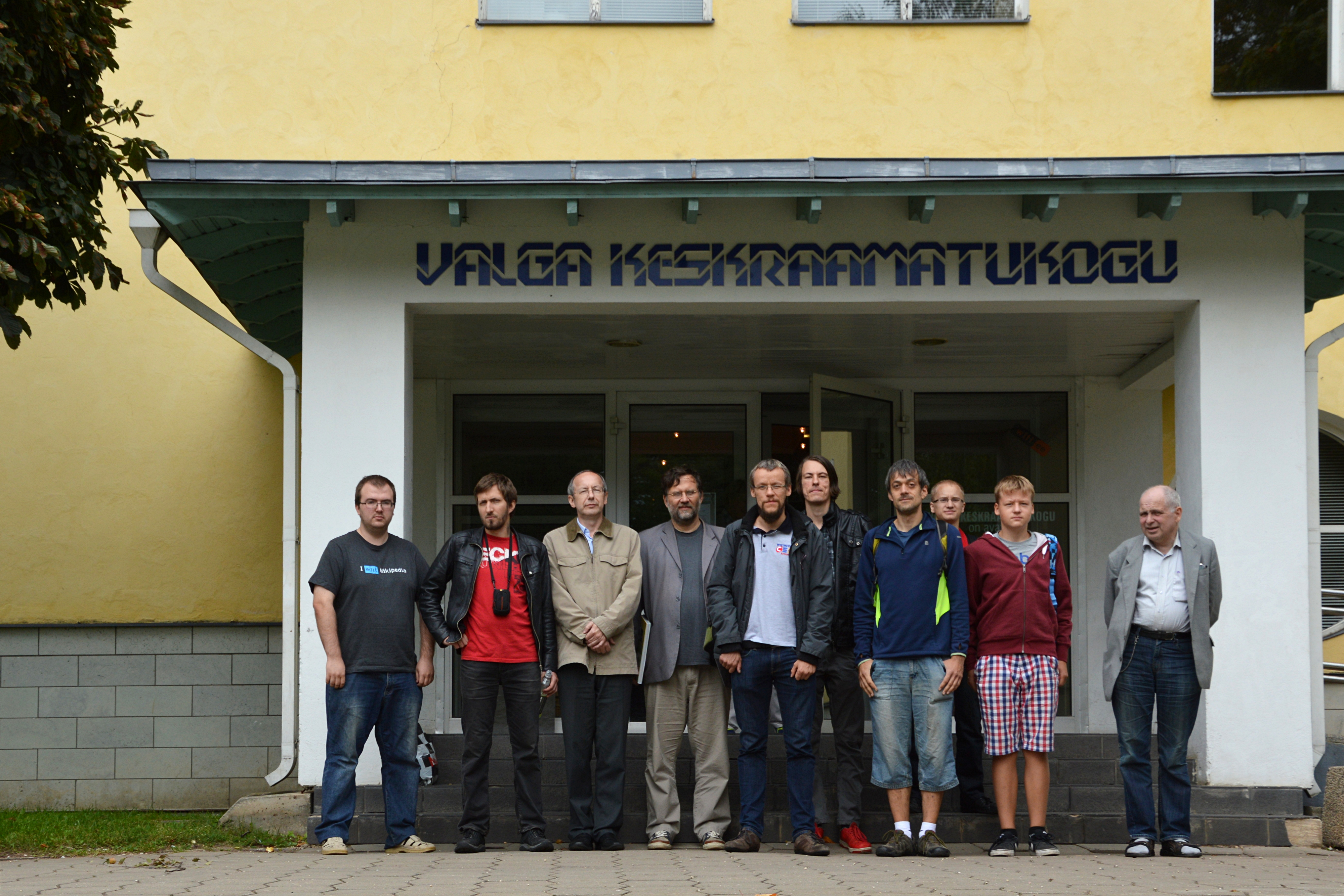 Group photo of the participants of the first ever Estonian-Latvian wikimeeting. Event was held in Valga Central Library.